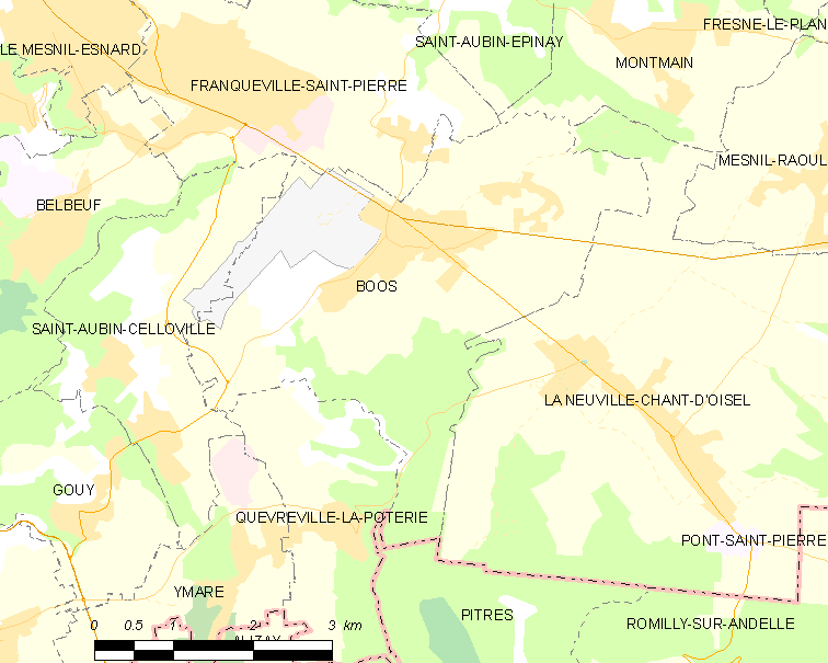 Map of French municipality Boos